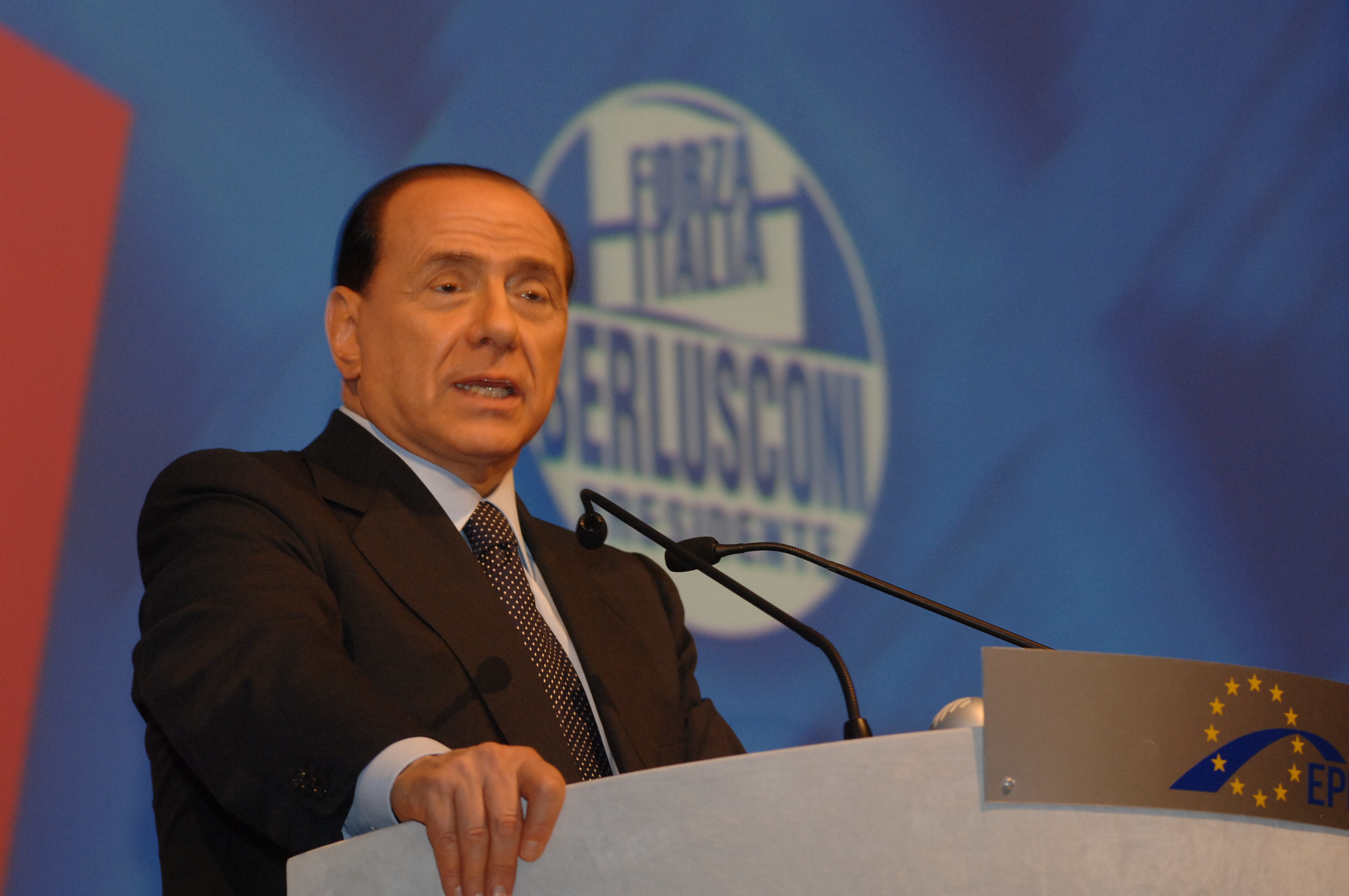 EPP Congress Rome 2006